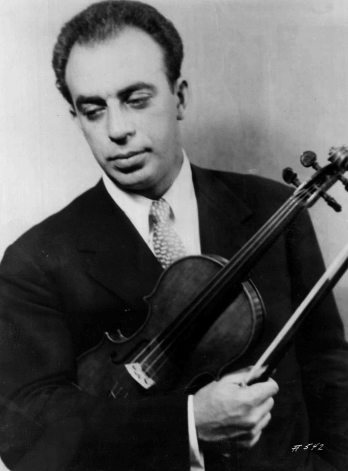 Photo of violinist Berl Senofsky.